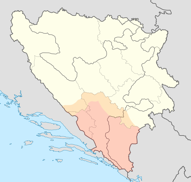 Map of Herzegovina within Bosnia and Herzegovina. Approximate borders. Altered map by User:Citypeek.